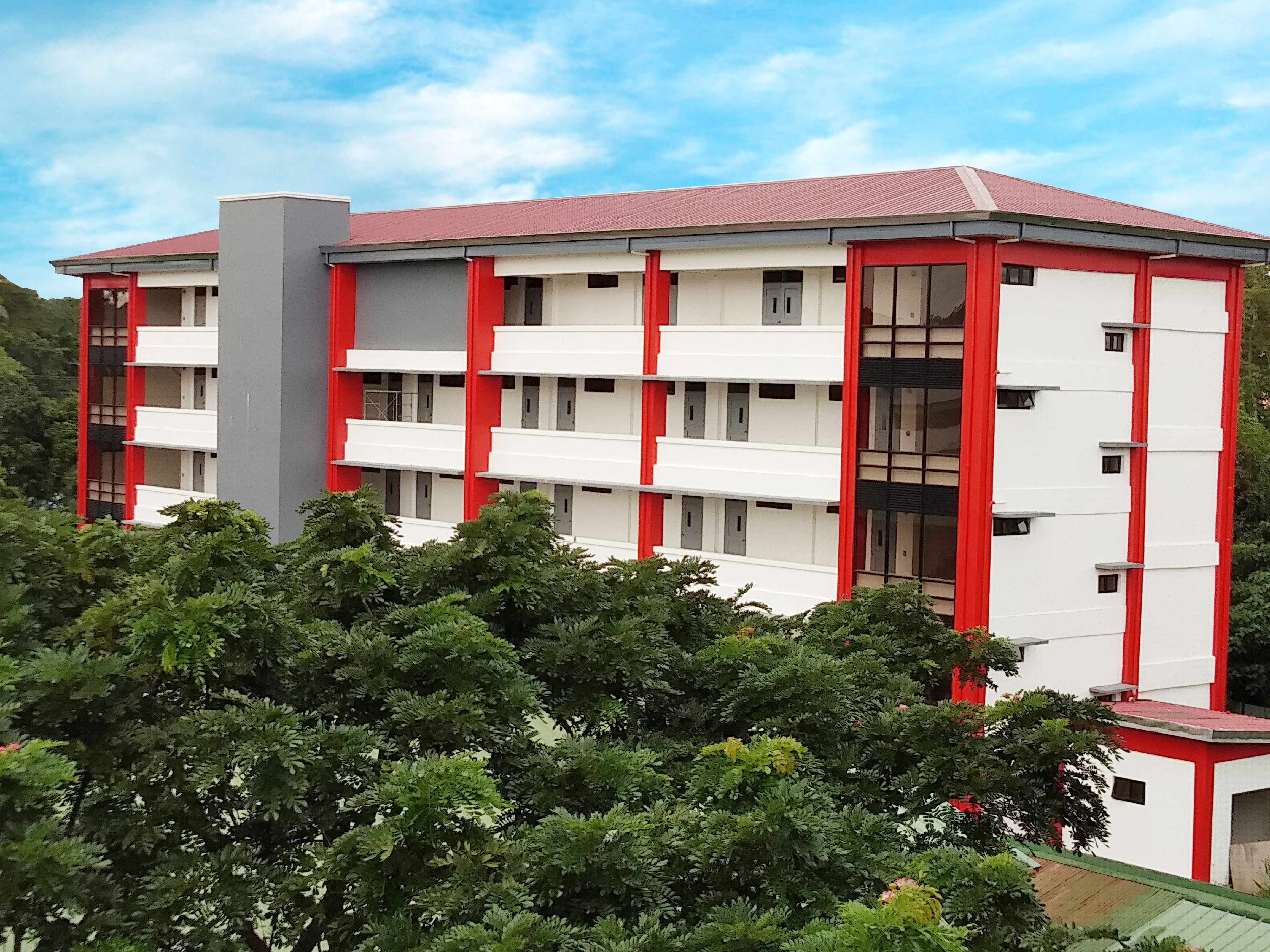 BatStateU Lipa – Don Claro M. Recto Campus